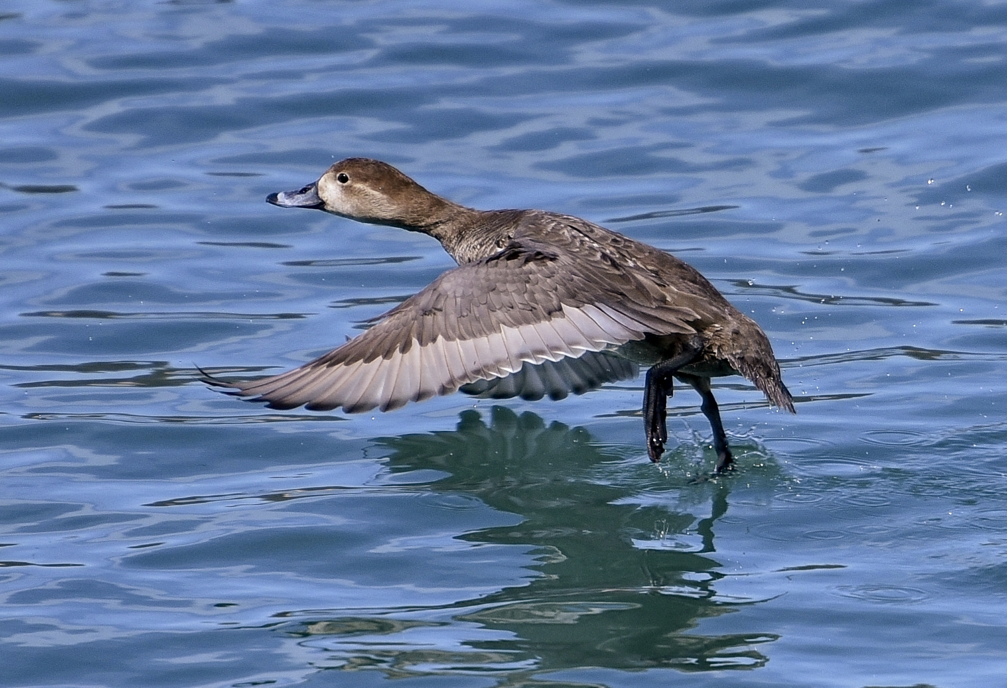 A female Redhead Aythya americana in flight at Colonel Samuel Smith Park District, Toronto, Ontario.